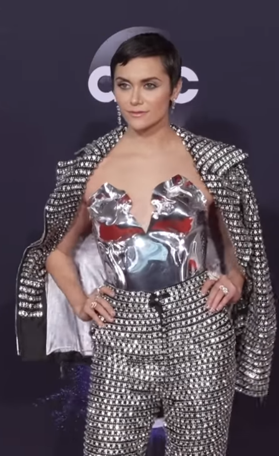 Alyson Stoner at The 2019 American Music Awards red carpet